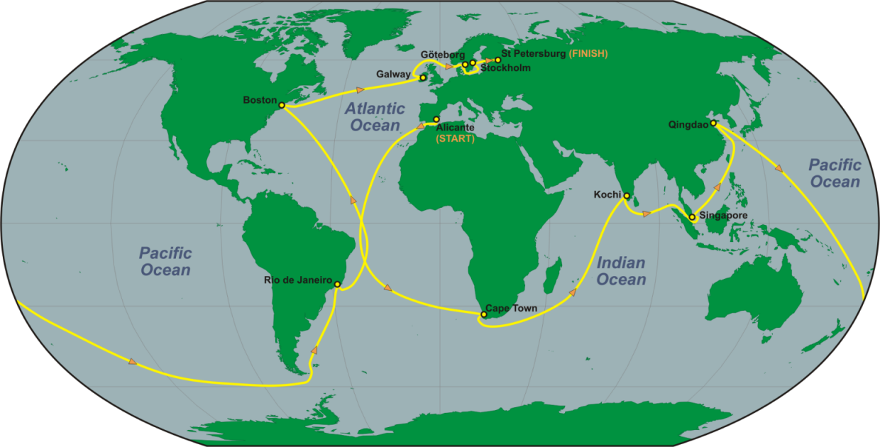 Route map of Volvo Ocean Race 2008-2009. (Scoring gates are NOT shown)